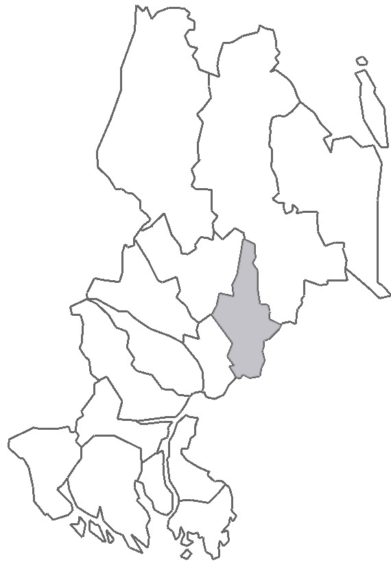 Map describing the location of Rasbo Hundred in Uppsala County, Sweden.